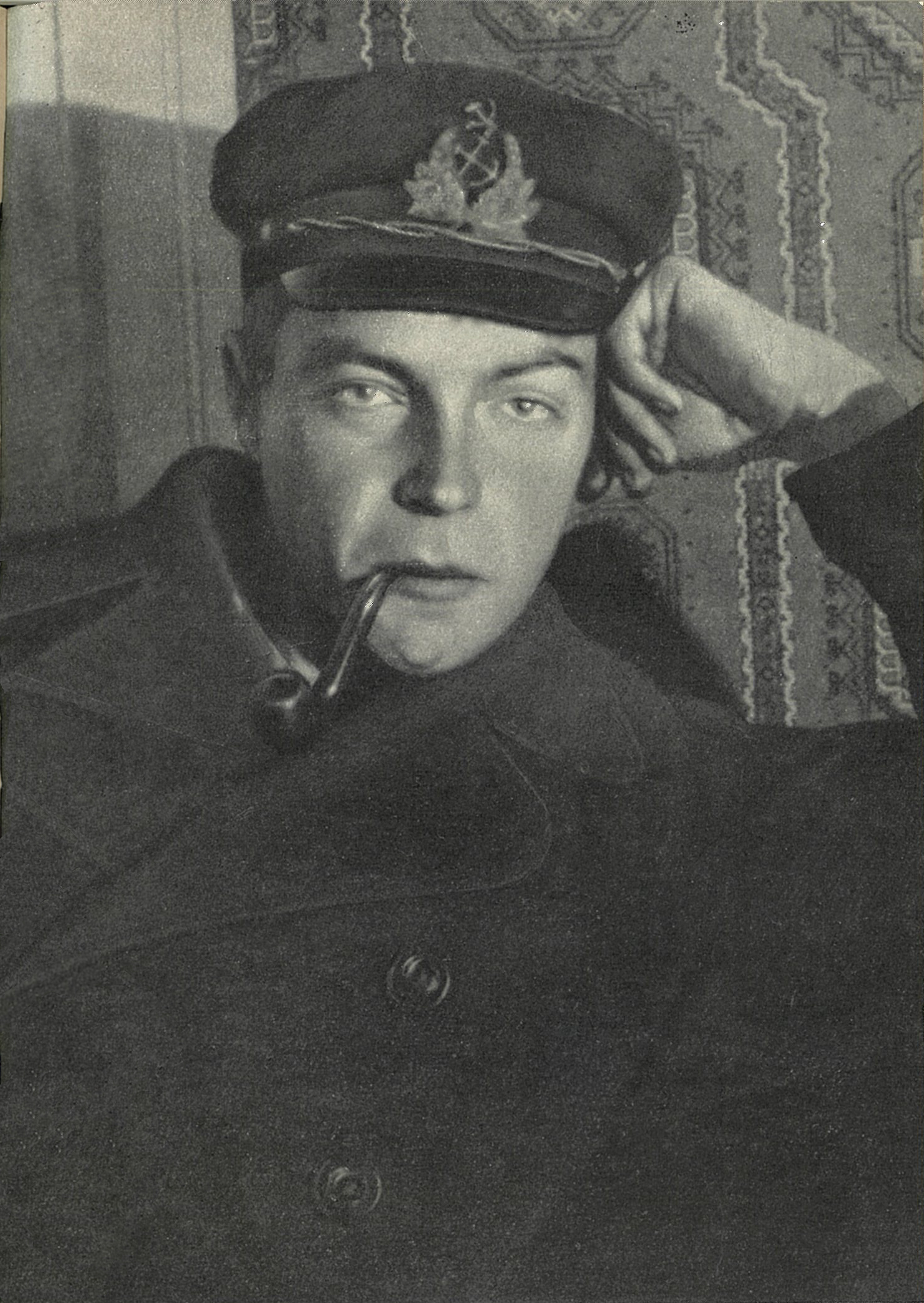 Ivan Yefremov as a hydrographic research boat skipper in Lankaran, Azerbaijan.